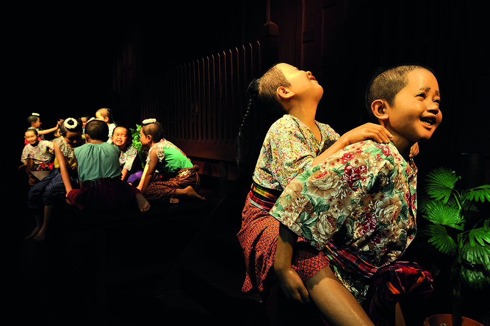 Located in Khun Kaew subdistrict, Nakhon Chai Si district, the museum is the country’s first exhibition hall of fiberglass figures. It was founded in 1982 by inspired Artist Duangkaew Phityakornsilp and his colleagues with an aim to promote and to preserve traditional Thai arts and culture. These artists spent over 10 years studying and experimenting on wax sculpture using fibre glass before succeeding in creating beautiful, exquisite, and durable ones. Today, the museum features 120 sculptures displayed in several collections for example the Chakri Dynasty, H.R.H. the Princess Mother ‘Somdet Phra Srinagarindra Boromarajajonani’, Enlightened Buddhist monks, world famous people, Thai traditional plays and the most famous collection is the Slavery in Thailand.